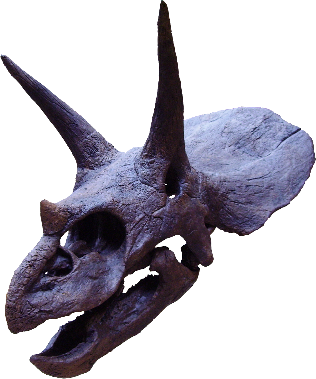 Triceratops horridus skull cast, Oxford University Museum of Natural History.